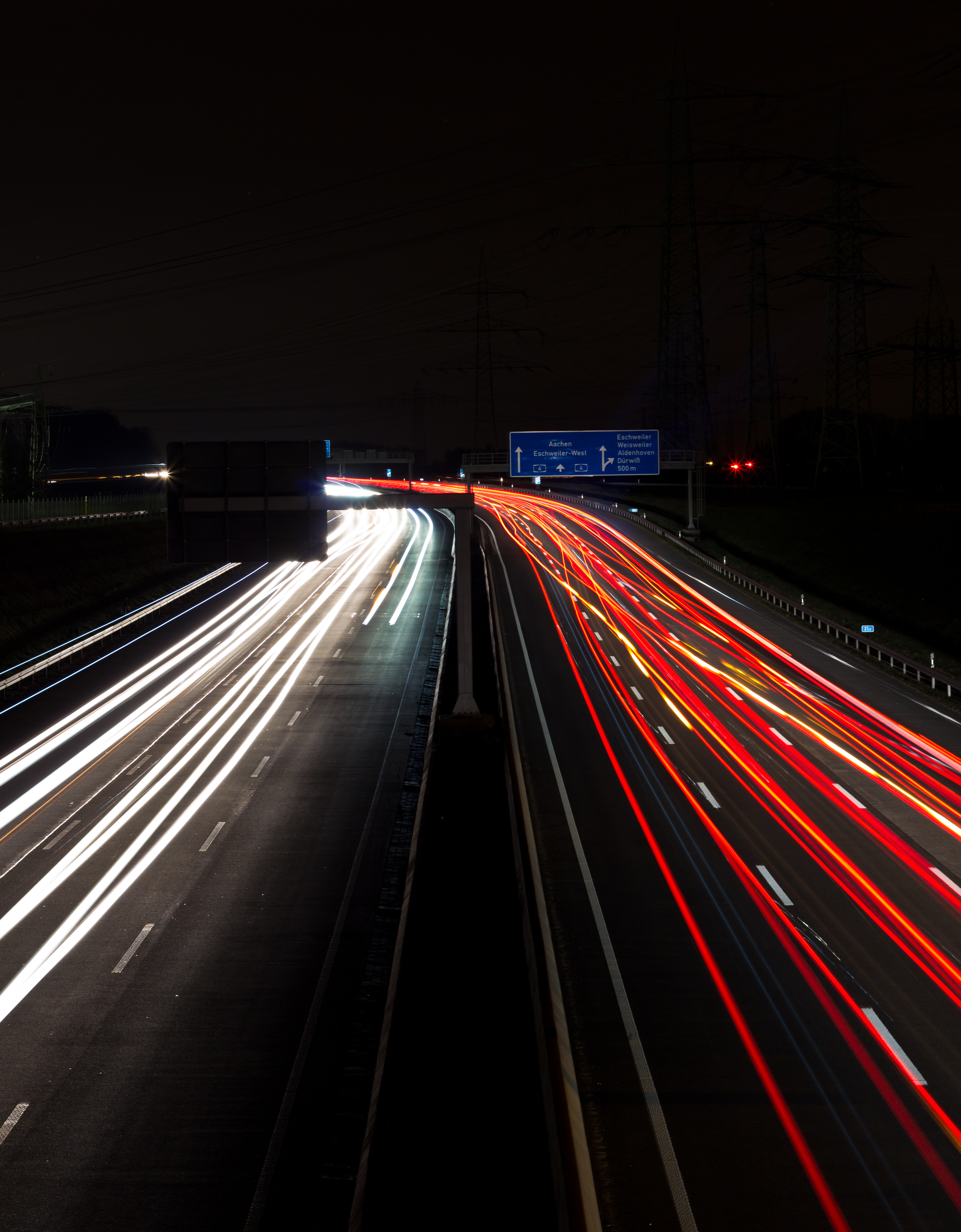 German Highway "A4" taken by night, at the height of Eschweiler